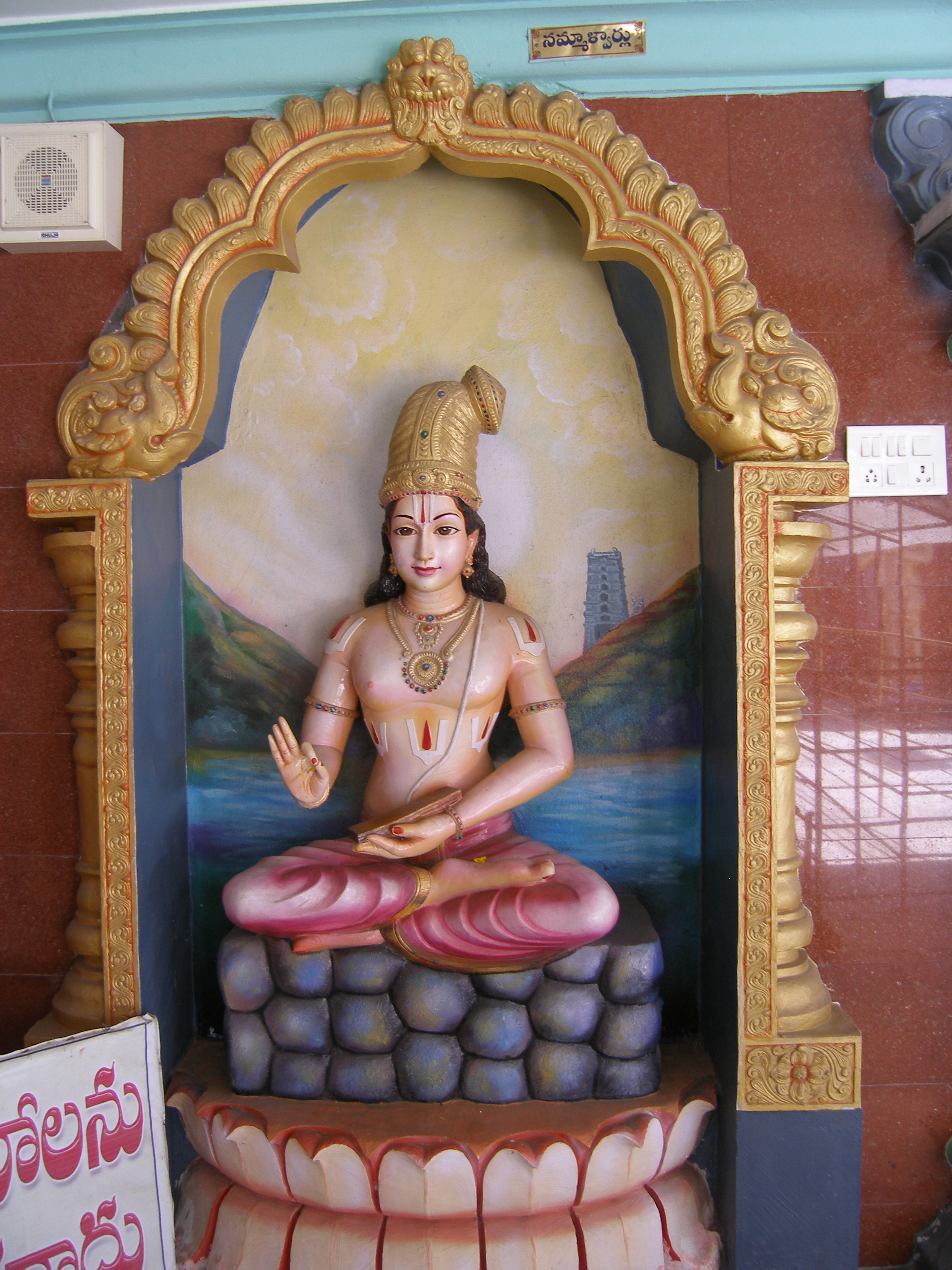 Nammalvar at Narayana Tirumala.